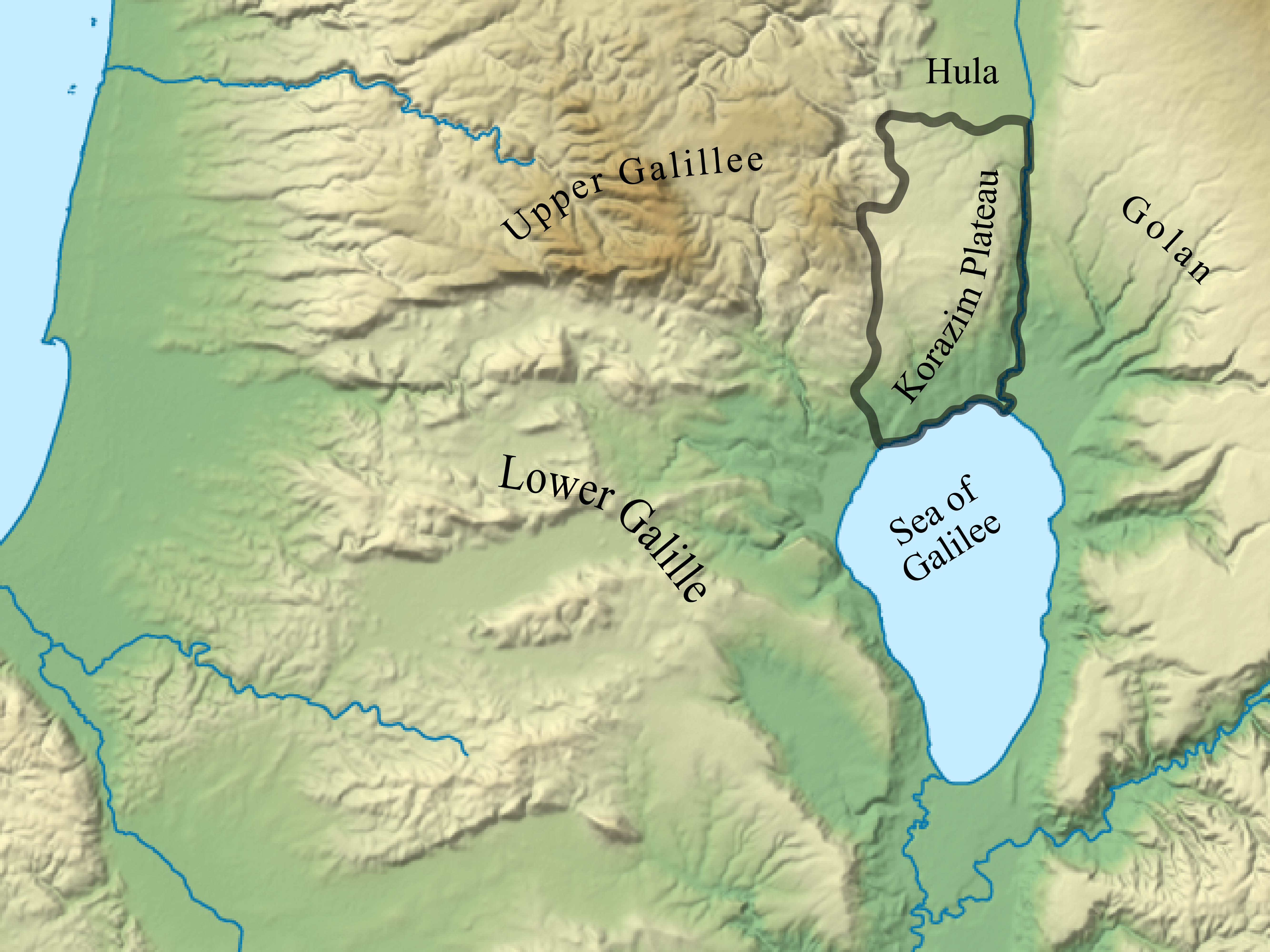 Relief map of Ramat Korazim with surrounding regions